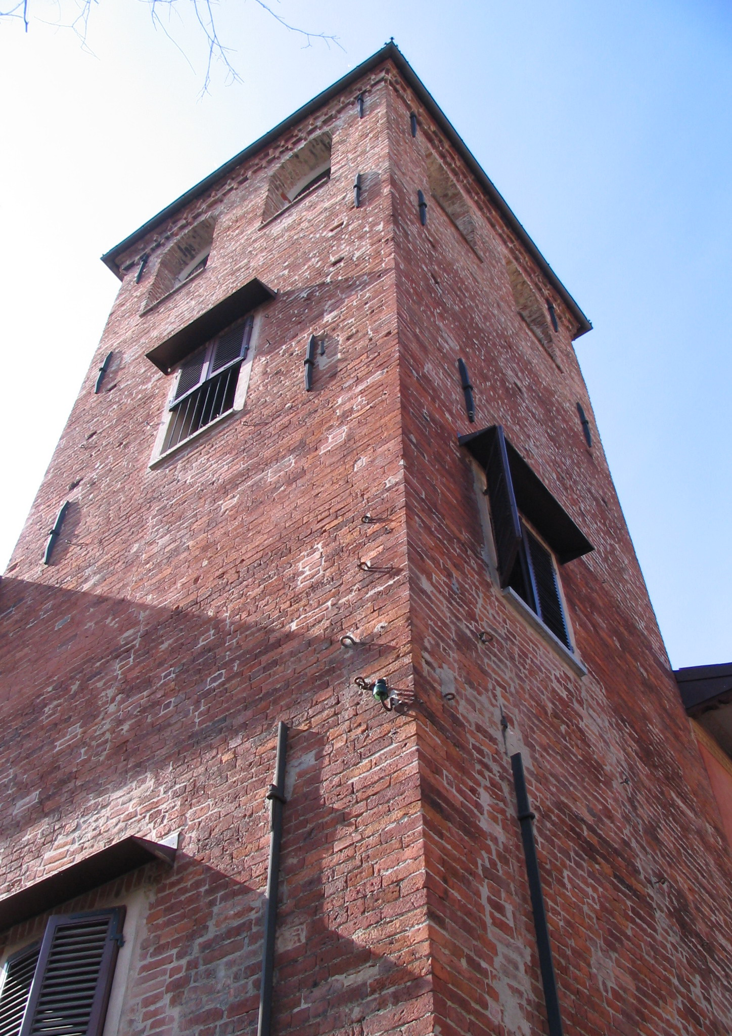 Asti Natta Tower